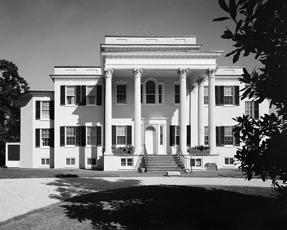 Oatlands Historic District, Main House,(Loudoun County, Virginia)(cropped)